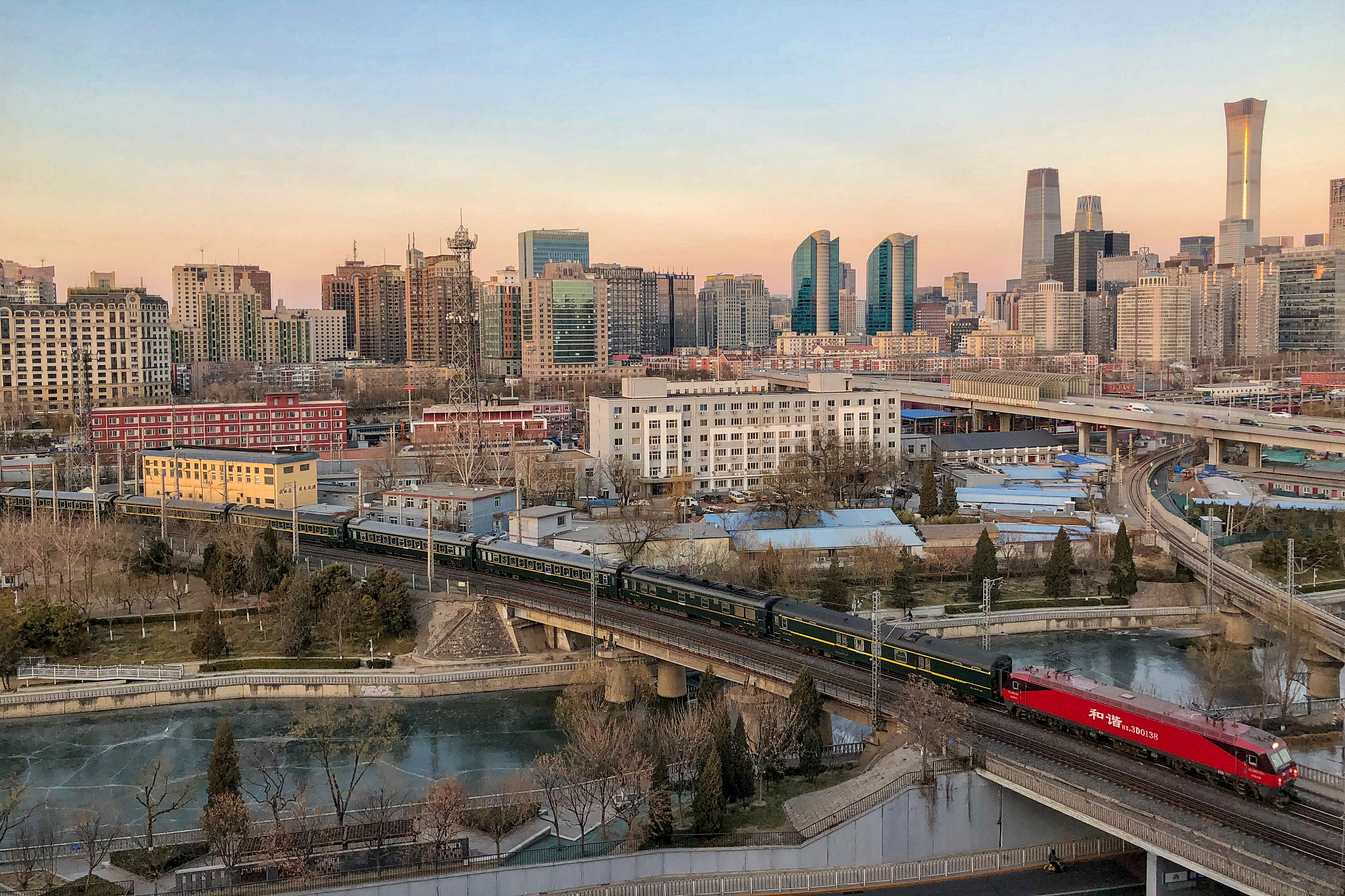 【伝説から神話へ -T31/32…AT LAST-】The last T31 is seen leaving for Hangzhou at its final sunset with CBD on the background. Thank you for 40 years of service!